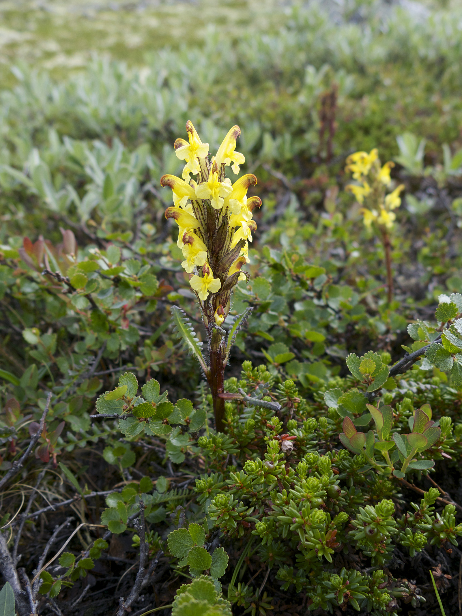 Oeder's Lousewort (Pedicularis oederi), Grimsdalen, Rondane National Park, Norway